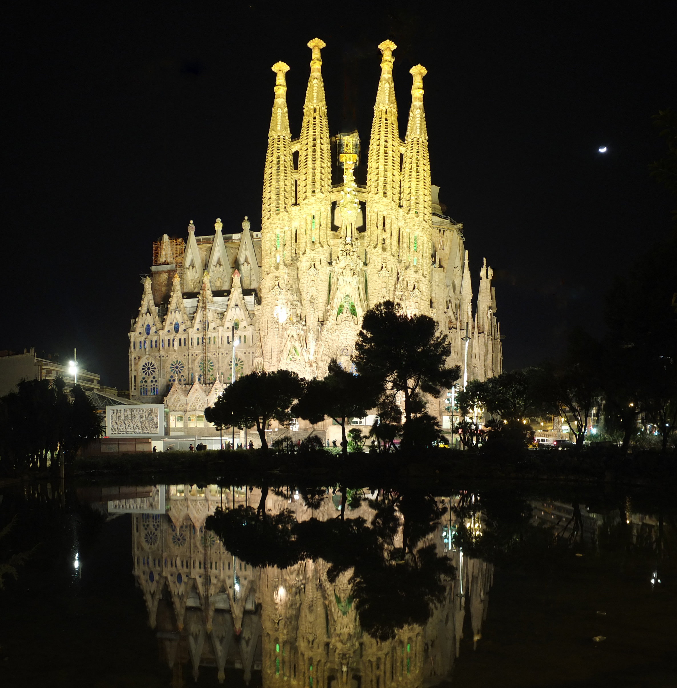 Church Sagrada Família (Barcelona, Catalonia, Spain) from Plaça de Gaudí. The cranes were removed by image processing.